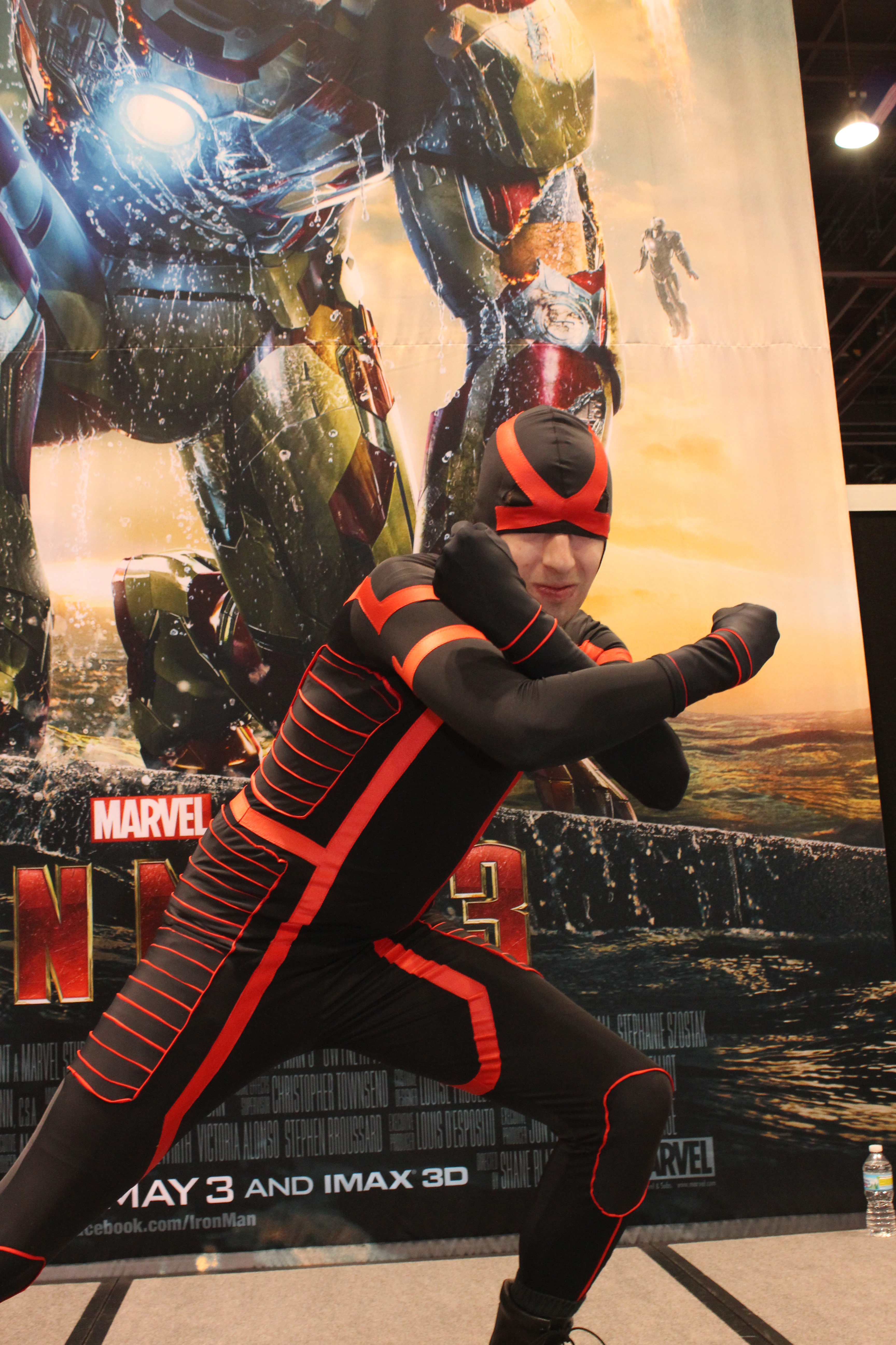 Cosplay at the 2013 Chicago Comic & Entertainment Expo (C2E2).